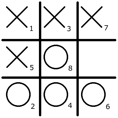 The final position in a game of Quantum Tic-Tac-Toe, in which all squares happen to have been collapsed to classical marks. X has been forced to give O the win, but X salvaged half a point for his own tic-tac-toe in the top three spaces. See Image:QuantumTicTacToeUncollapsed.png for the position immediately preceding X's final measurement.